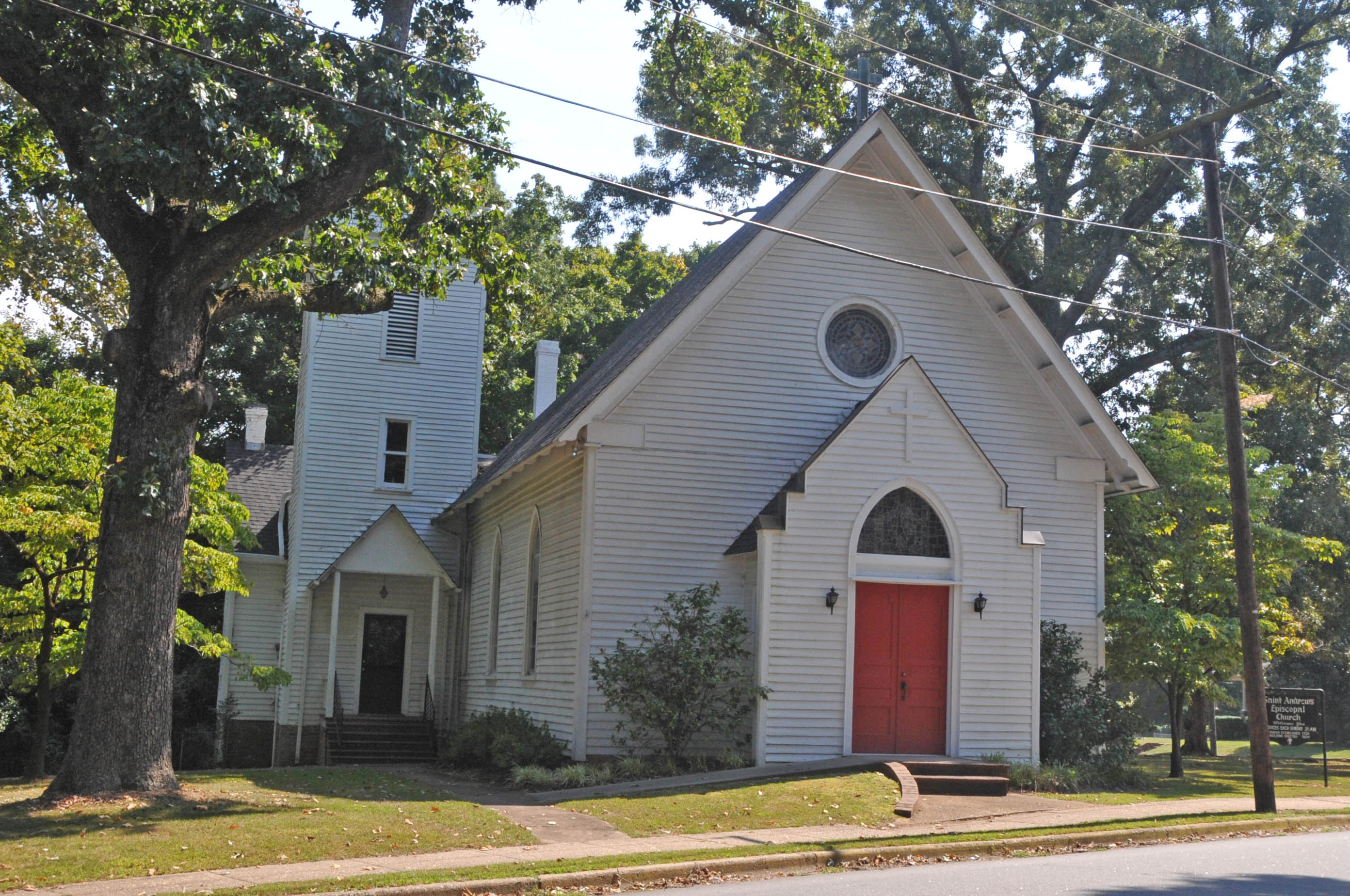 ST. ANDREWS EPISCOPAL CHURCH IN THE LAWRENCEVILLE HISTORIC DISTRICT; ERECTED IN 1829; OLDEST CONGREGATION IN LAWRENCEVILLE; WOOD FRAME GOTHIC REVIVAL BUILDING